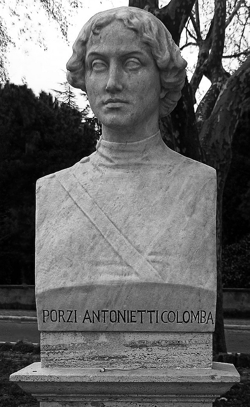 Rome, park of Gianicolo, bust of Colomba Porzi Antonietti (1826-1849), by Giovanni Nicolini (1910-1911)